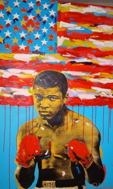 Painting of Ali by pop artist John Stango